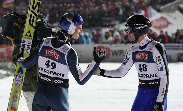 Congratulations for Wolfgang Loitzl by Gregor Schlierenzauer after friday's competition during FIS Ski Jumping World Cup in Zakopane, 2009